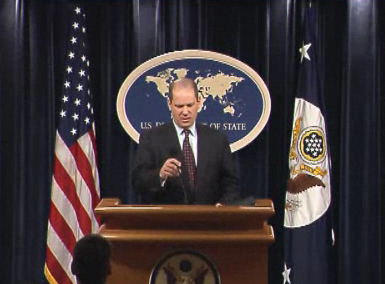 U.S. Department of State Daily Press Briefing by Department Spokesman Sean McCormack. - Discussing recent violence in Lebanon